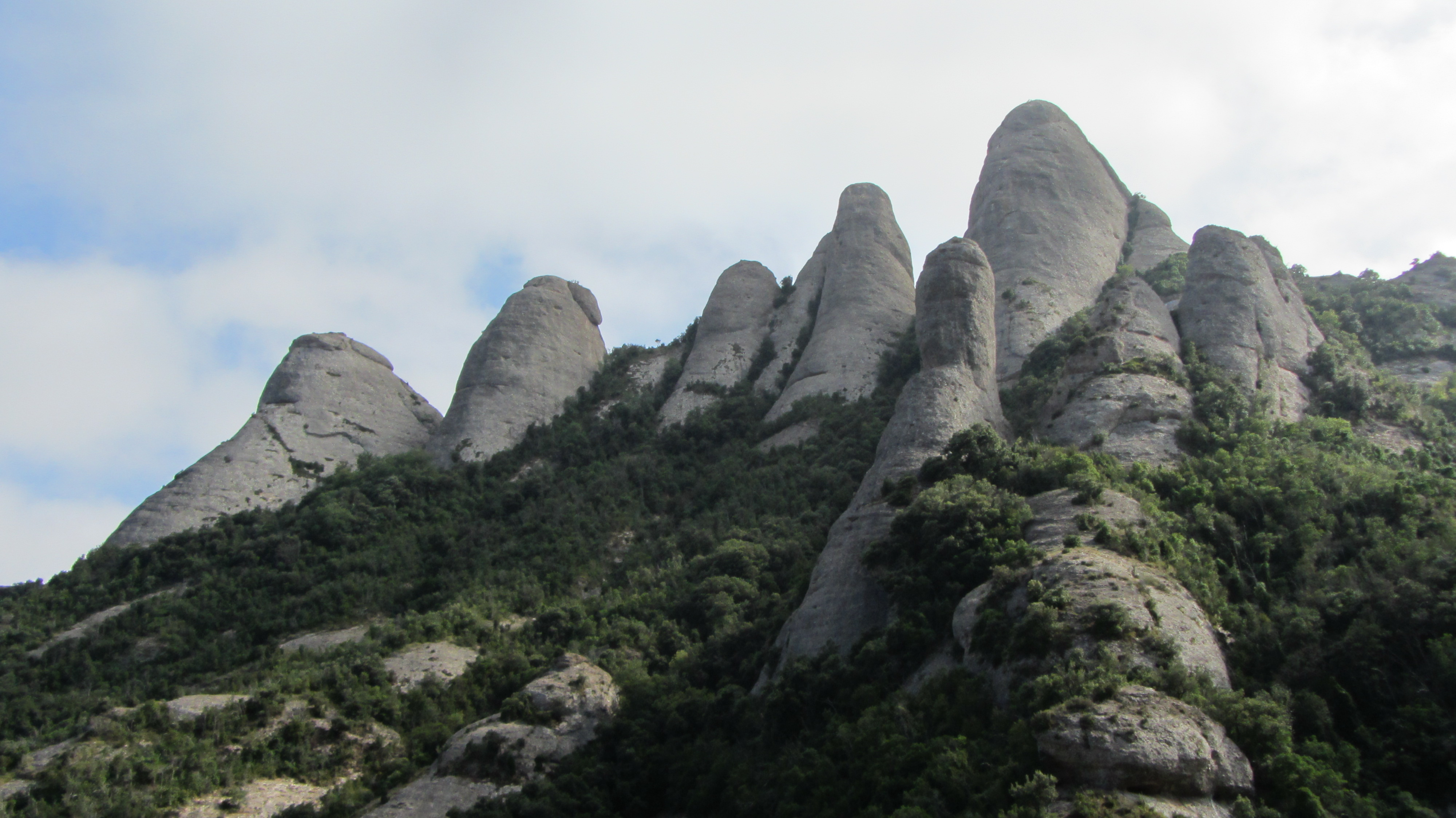 Montserrat, rocks belonging to the Santa Magdalena or Tebes region